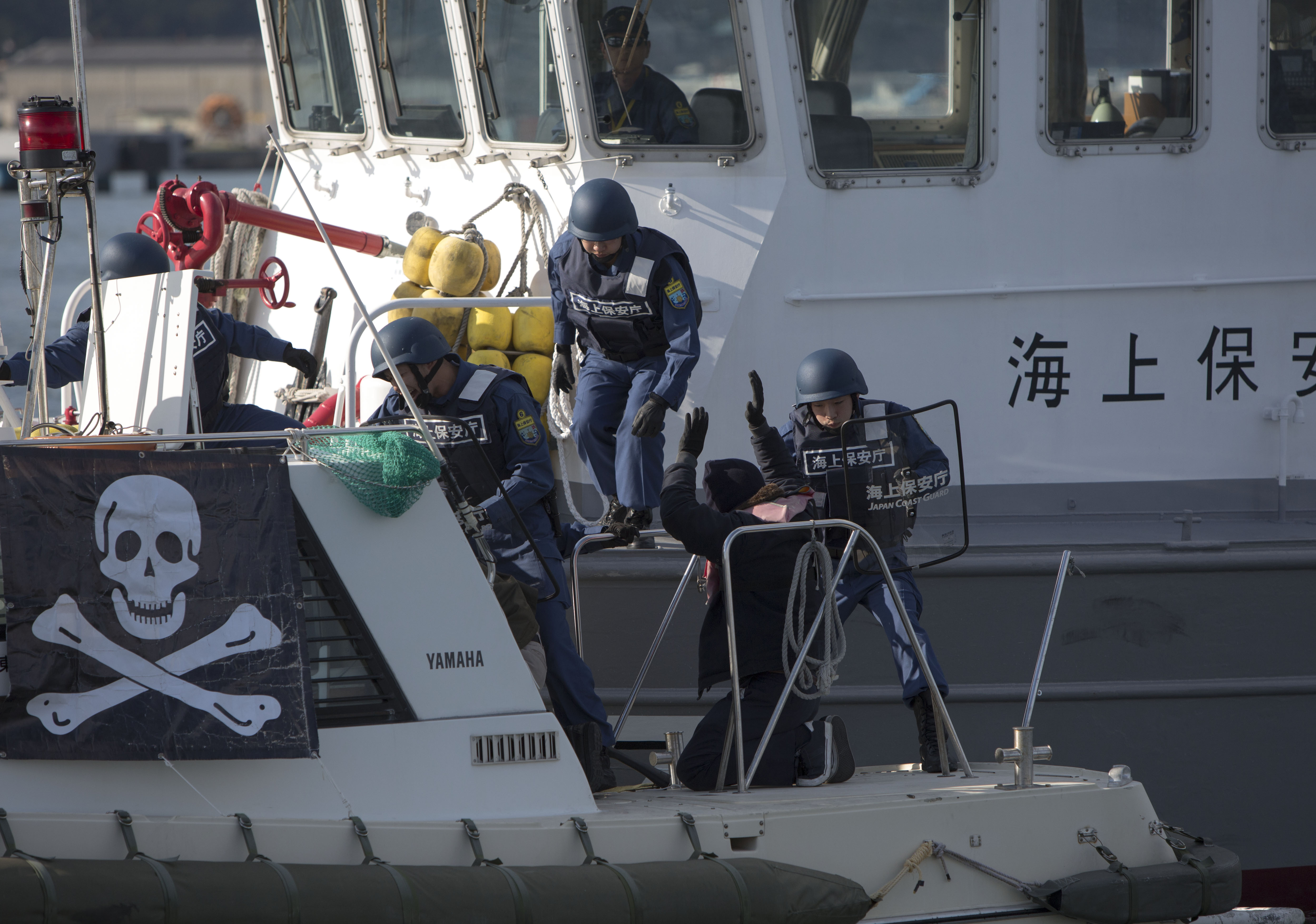 MARINE CORPS AIR STATION IWAKUNI, Japan - Iwakuni Coast Guard personnel board a cargo vessel during an anti-terrorism training exercise at Muronoki pier, Iwakuni harbor, Iwakuni, Japan, Nov. 22 2013. During a simulated patrol, Iwakuni Coast Guard engaged the enemy ship in a brief firefight with simulated rounds before disabling the vessel and apprehending the aggressors as part of their cooperative training with Iwakuni police and customs.